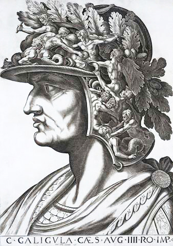 Gaius Caligula, Emperor of Rome by Antonius 1596.